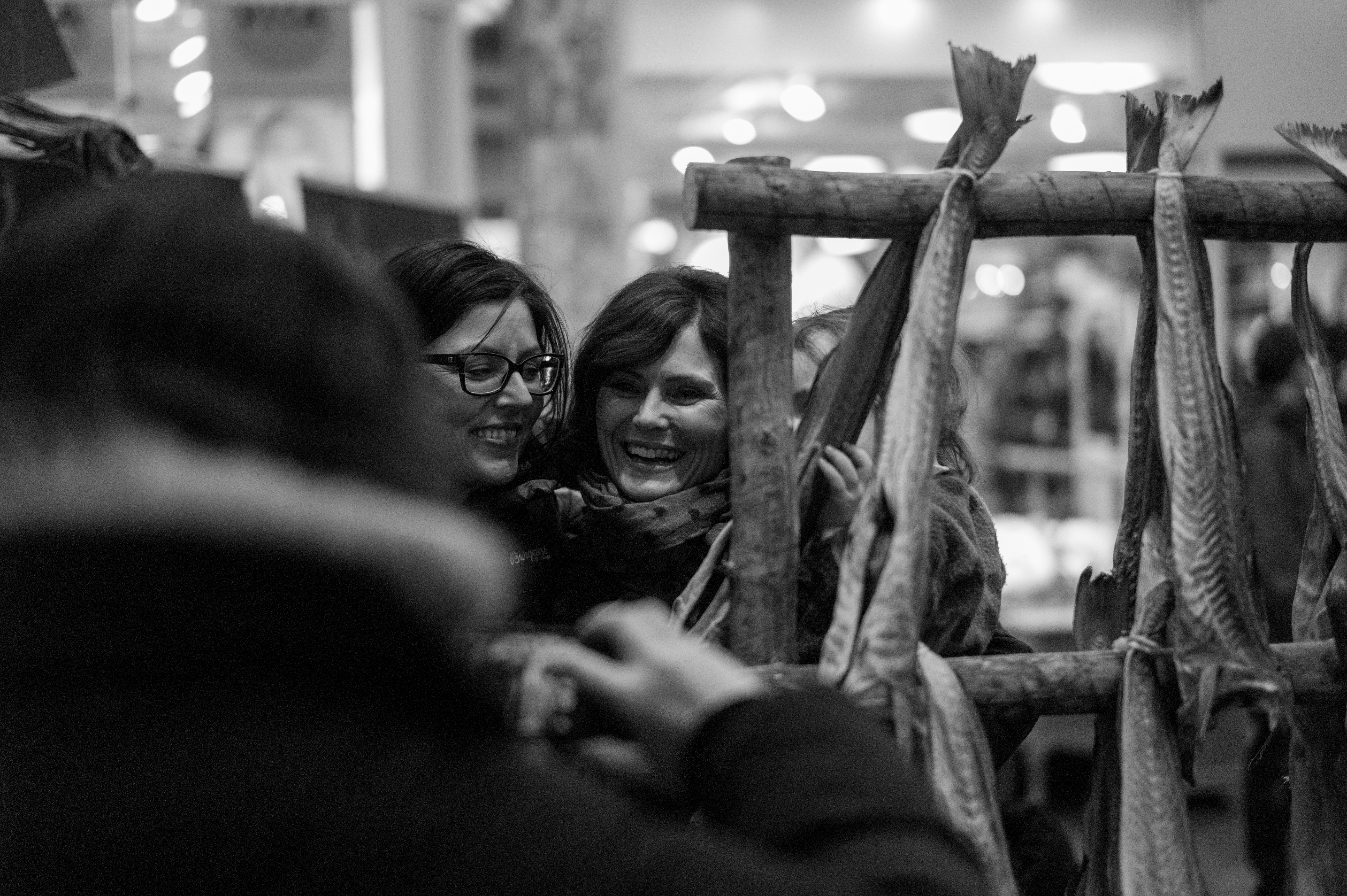 Folk og tørrfisk i matgaten.